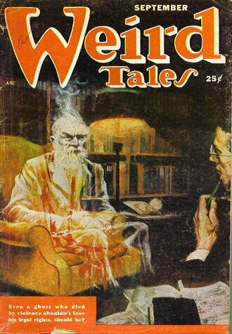 Cover of the pulp magazine Weird Tales